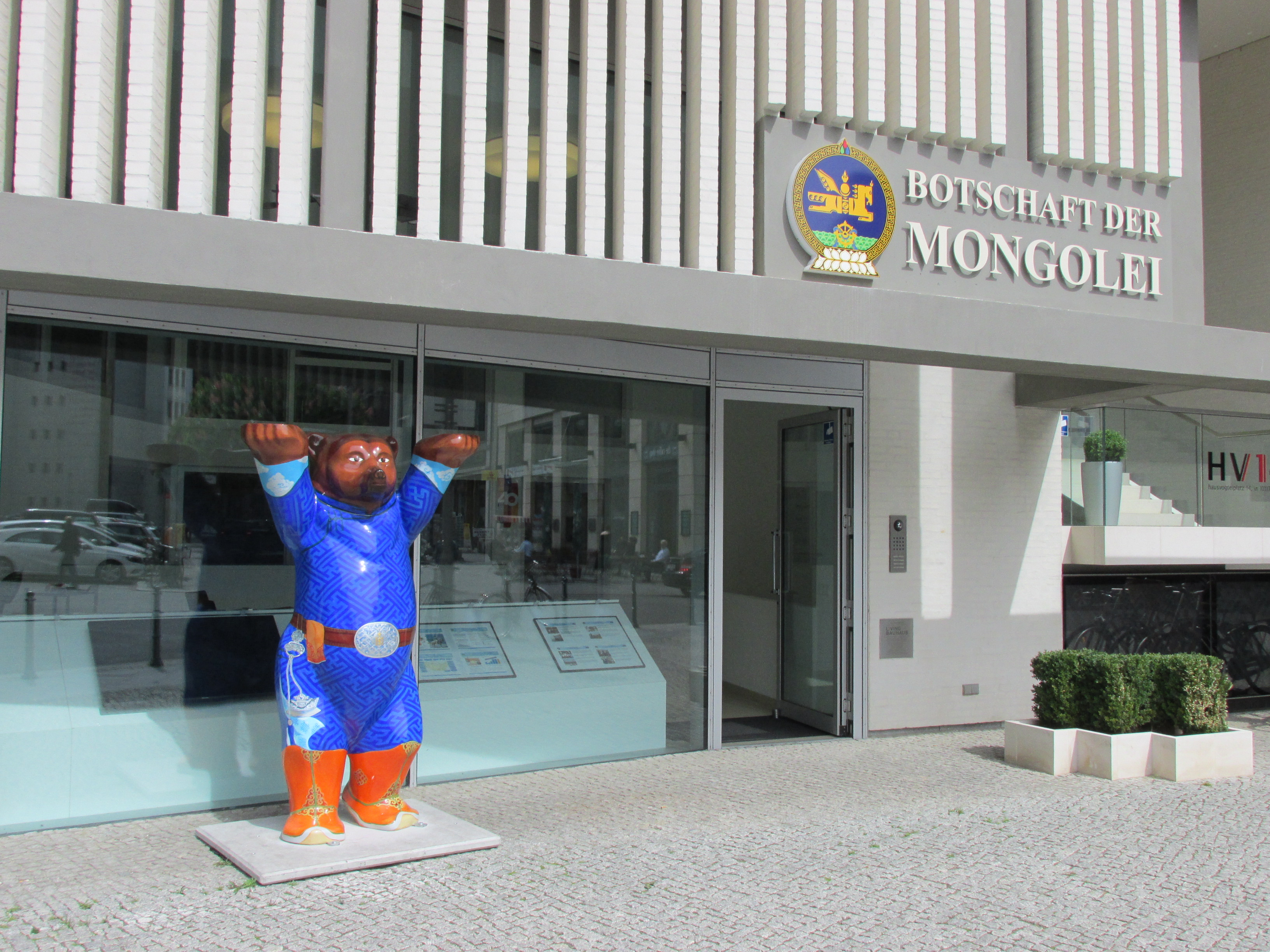 Mongolian Embassy at Hausvogteiplatz, Berlin-Mitte, and a Buddy Bär in Mongolian national dress.